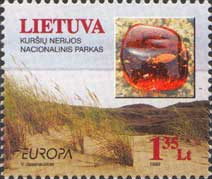 Europa.Parks and Gardens. Date of issue: 10th April 1999 Designer: K.Katkus Paper: coated Printing process: offset Perforation: comb 13 : 13 1/4 Size of a stamp: 35,50 x 30 mm Size of a Miniature Sheet: 92 x 172 mm Miniature Sheet composition: 10 (2 x 5) stamps Printing run: 500.000 stamps or 50.000 Miniature Sheets Michel catalogue numbers: 693-694 1,35 L. multicoloured. Curonian Spit national park